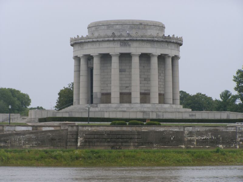 Memorial Rotunda, George Rogers Clark Nat'l Historical Park